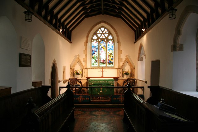 St.Mary's chancel Mostly restored Victorian chancel of St.Mary's church